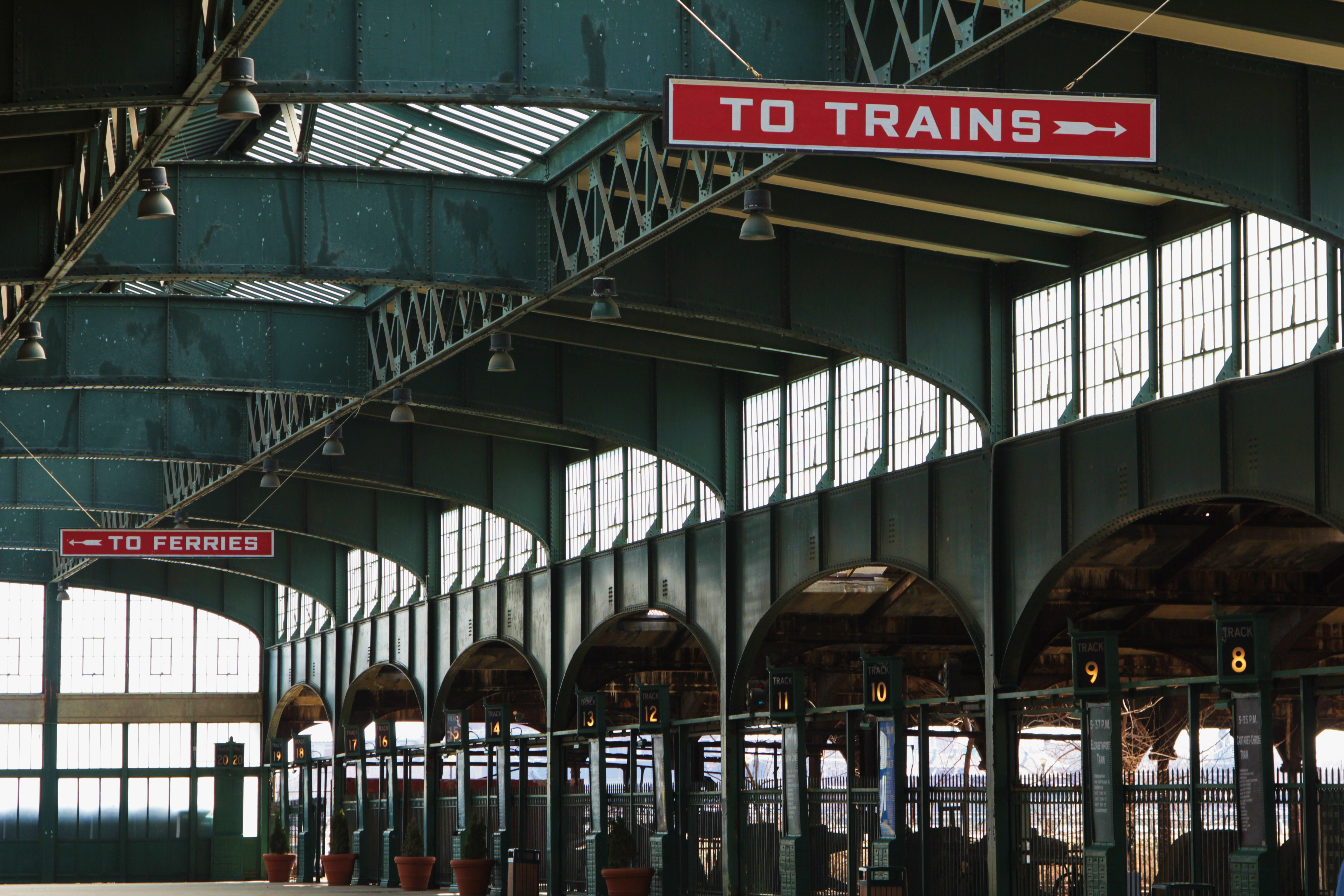 Inside the Communipaw Terminal in Liberty State Park, NJ.